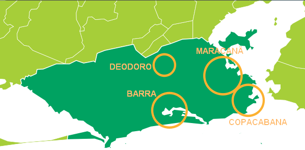 Map based on File:Rio de Janeiro bid map for the 2016 Summer Olympics.svg, with names of zones.